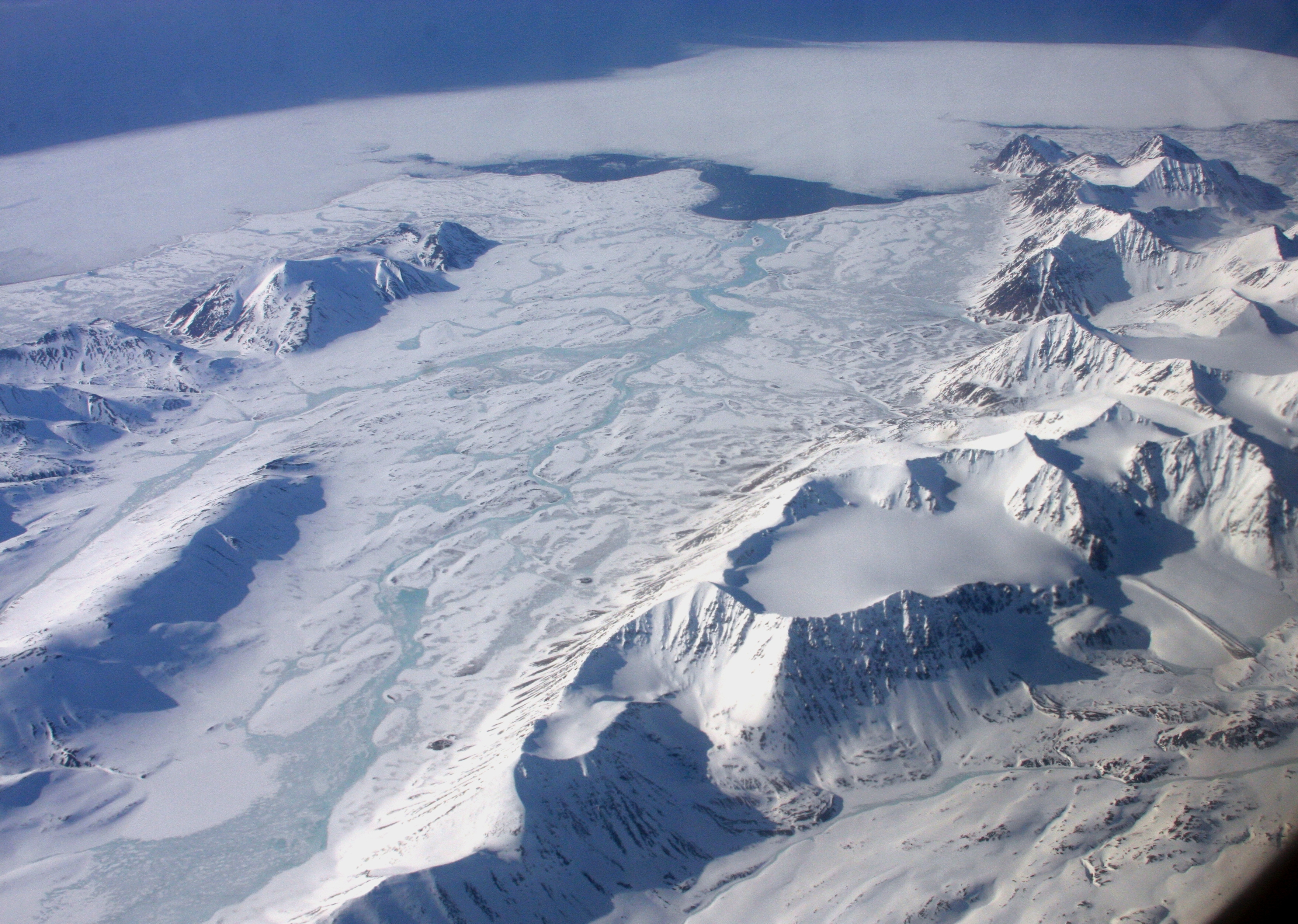 Dunderdalen (Dunder Valley) ending at the Dunder Bay (Dunderbukta), in Wedel Jarlsberg Land, southwestern Spitsbergen. Late april, 2011.